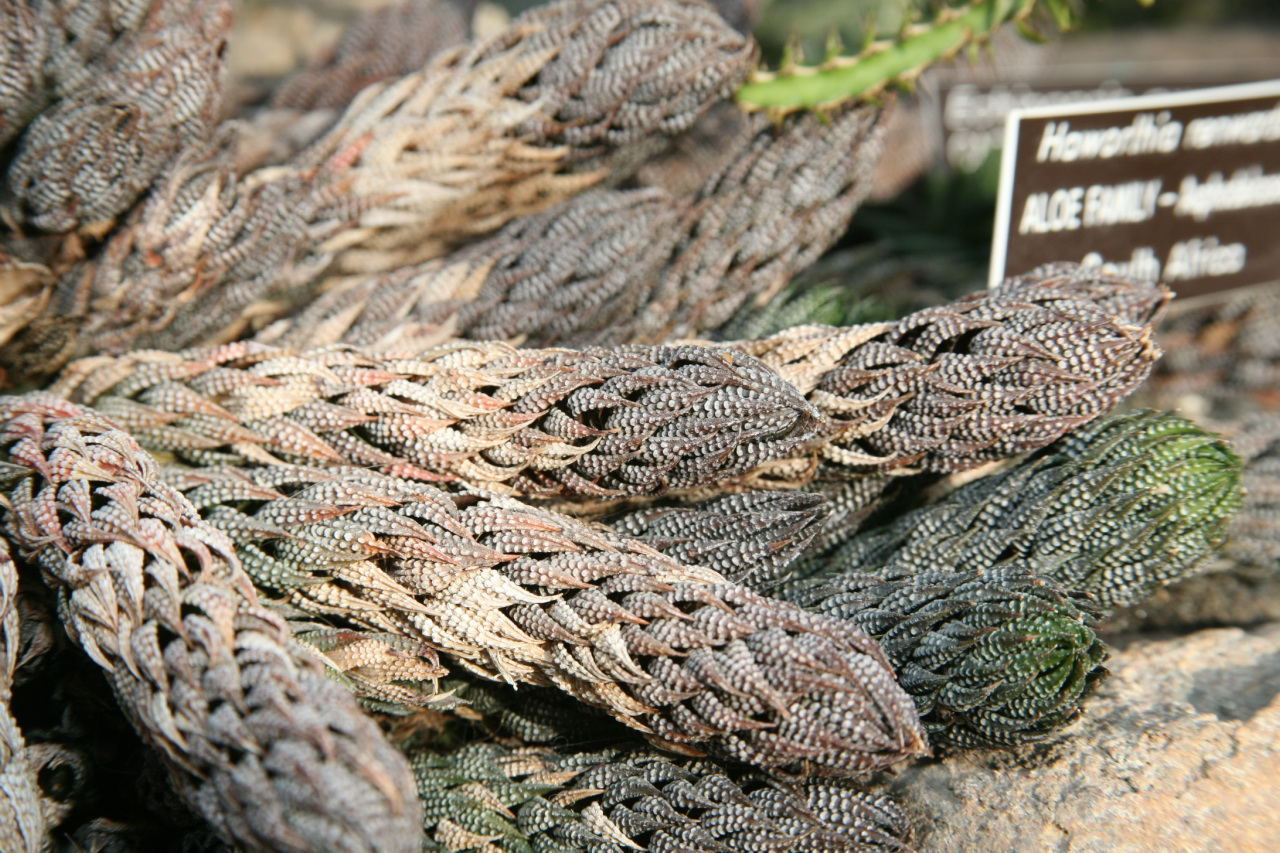 Haworthia renwardtii